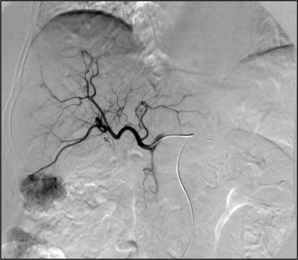 Right hepatic artery angiography